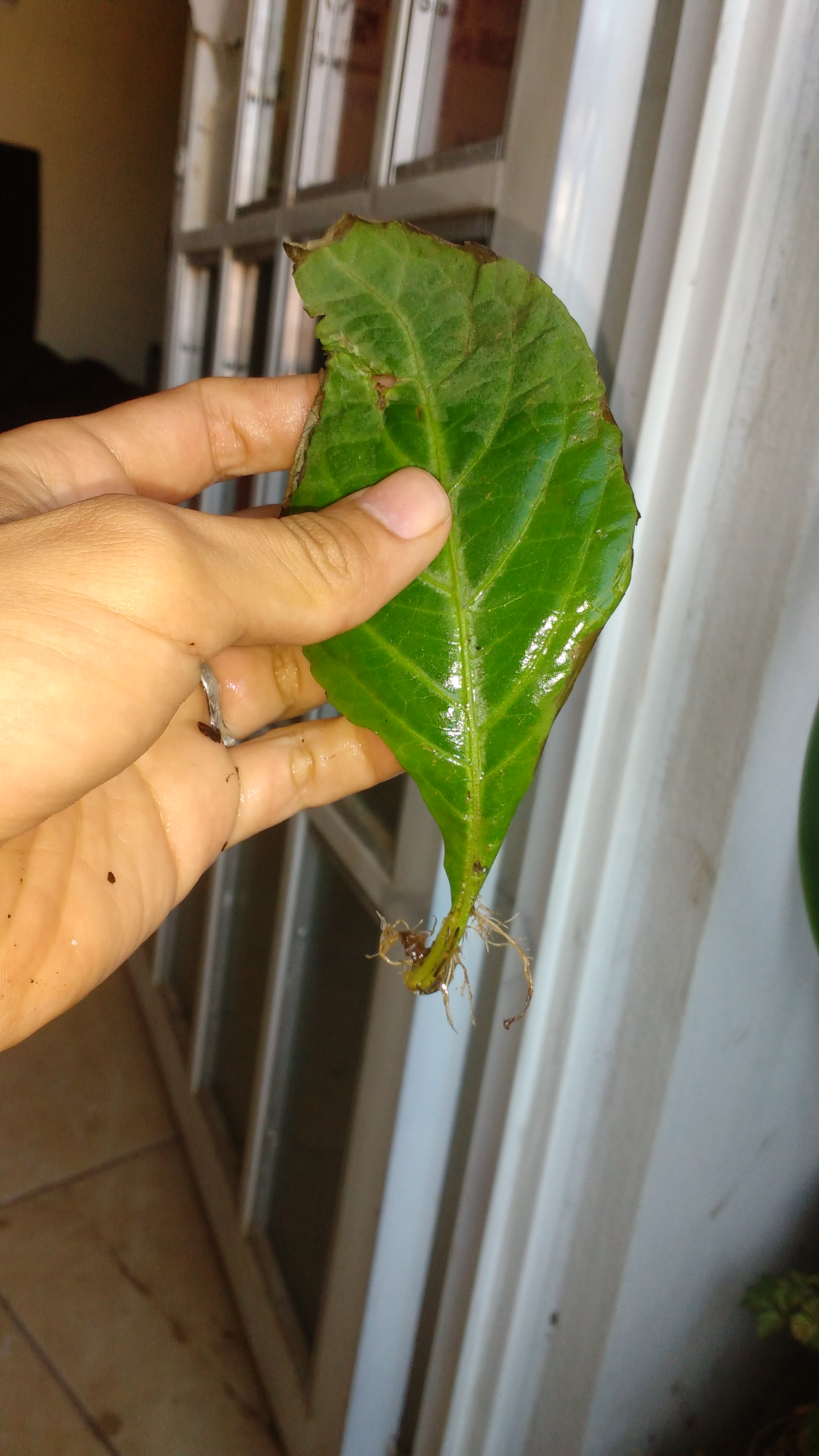 A salvia divinorum rooted leaf